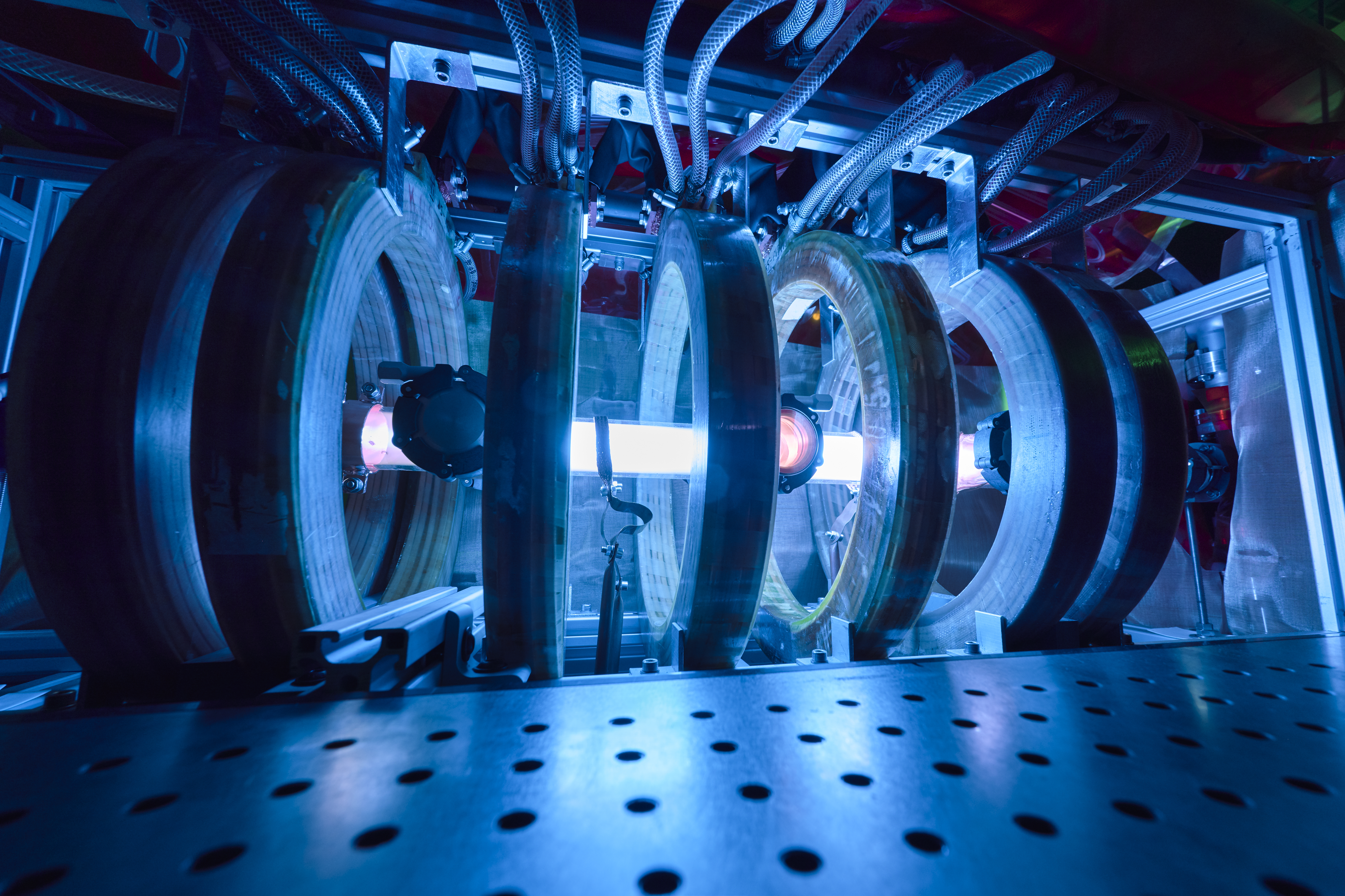 A helicon plasma cell R&D lab at the AWAKE experiment at CERN.